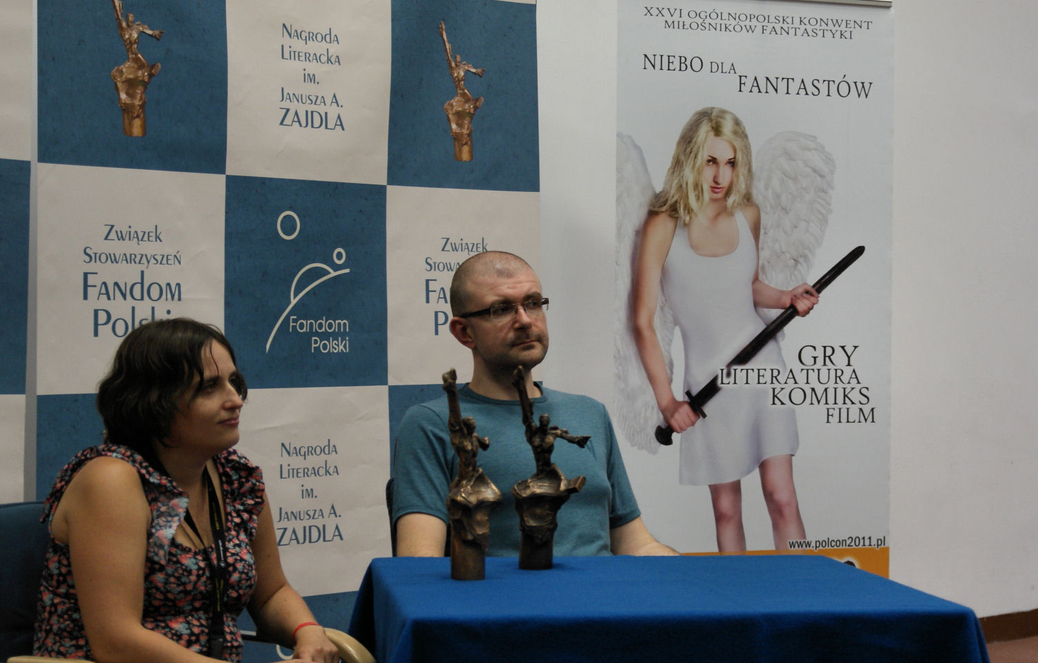 Polcon 2011 - Zajdel Awards